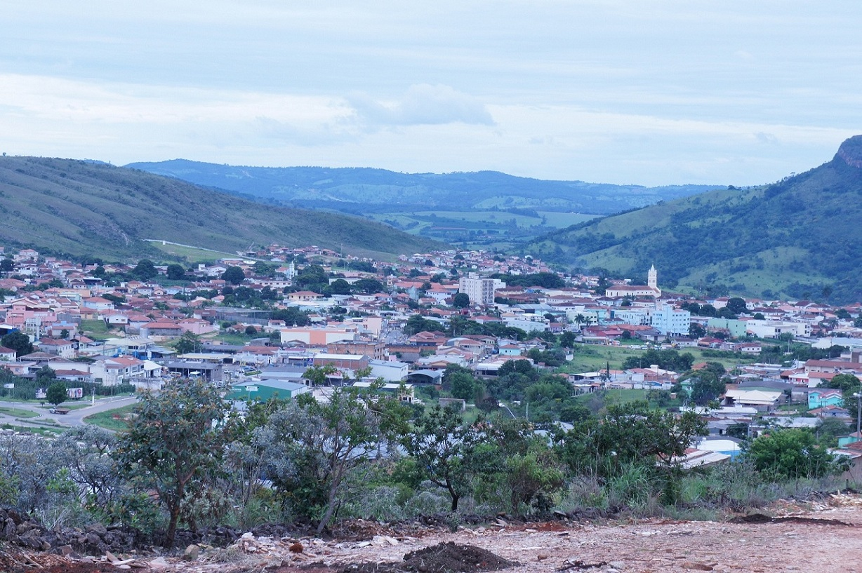 Foto da vista parcial de Alpinópolis, originada do Montes das Oliveiras.